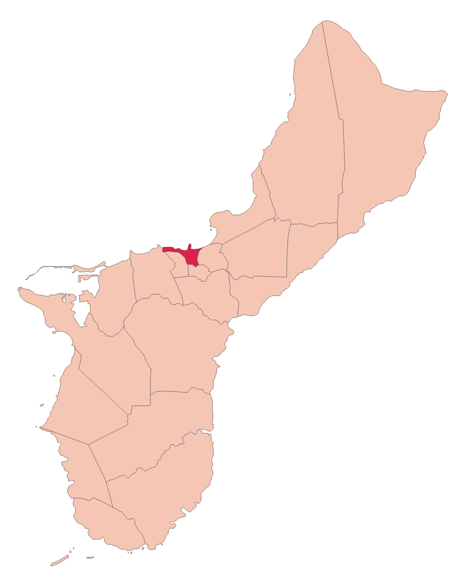 Municipalities of Guam: HagåtñaChamoru: Hagåtña, Guåhån.